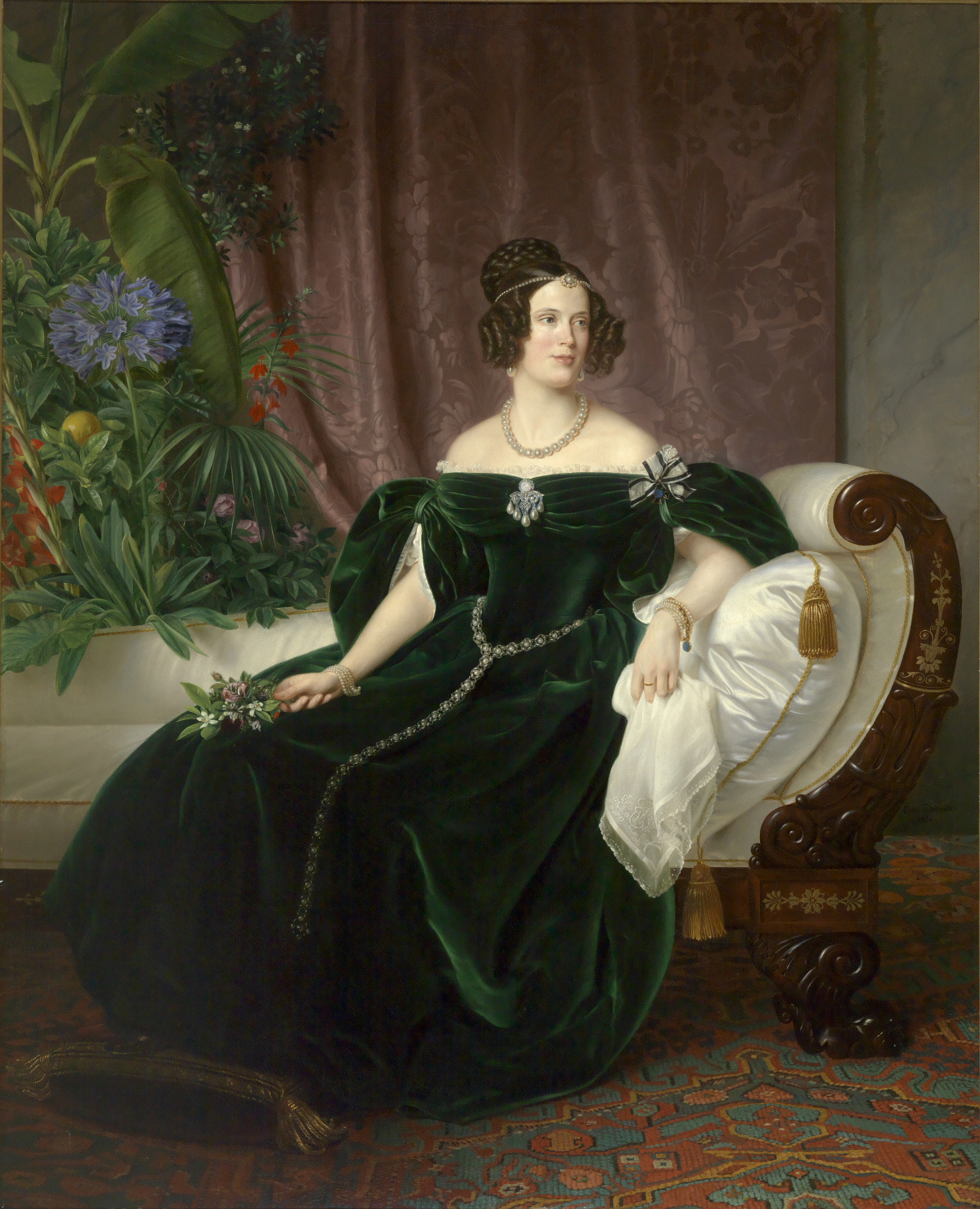 Princess Marianne of Prussia (1810–1883), née Princess of the Netherlands, Princess of Orange-Nassau.